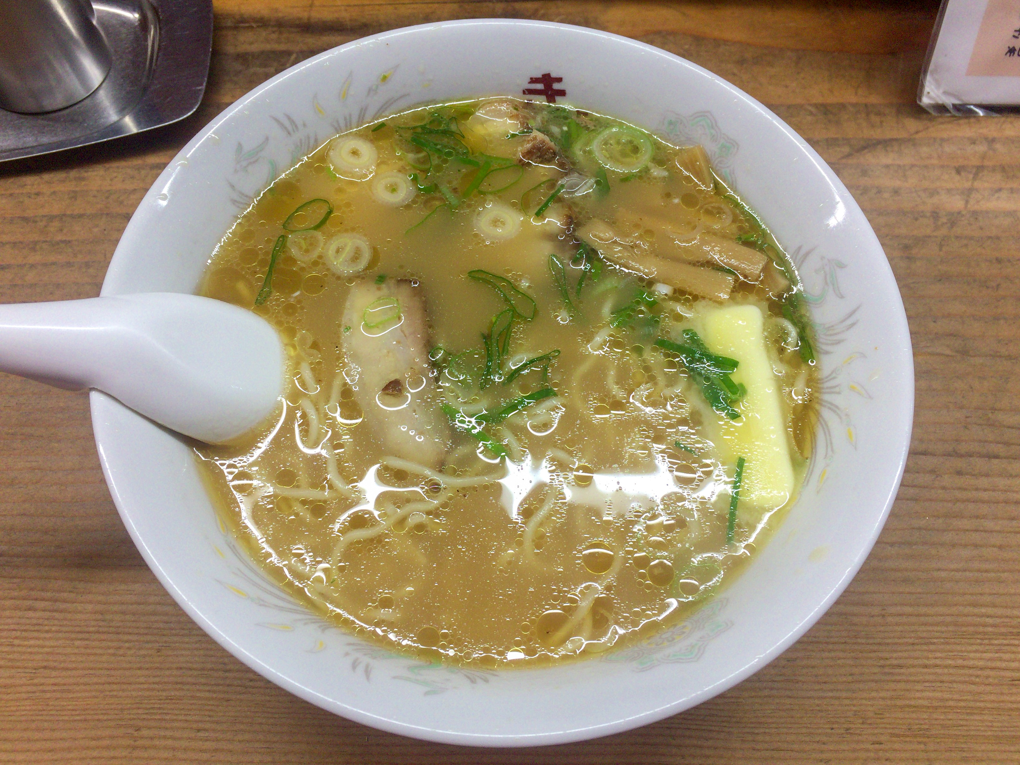 A bowl of Kamikawa Ramen, served at the Kiyoshi Shokudo diner in Kamikawa Town, Hokkaido, Japan